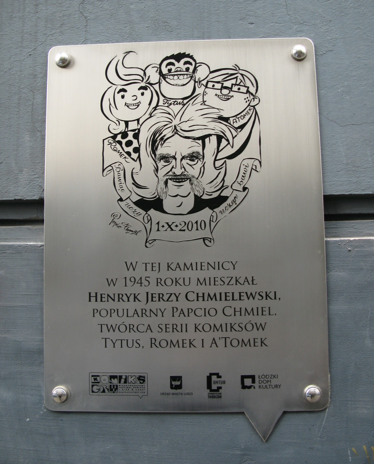 Plate dedicated to Henryk Jerzy Chmielewski (Tytus, Romek i A'Tomek beside), polish comics author, Lodz, Nawrot Street